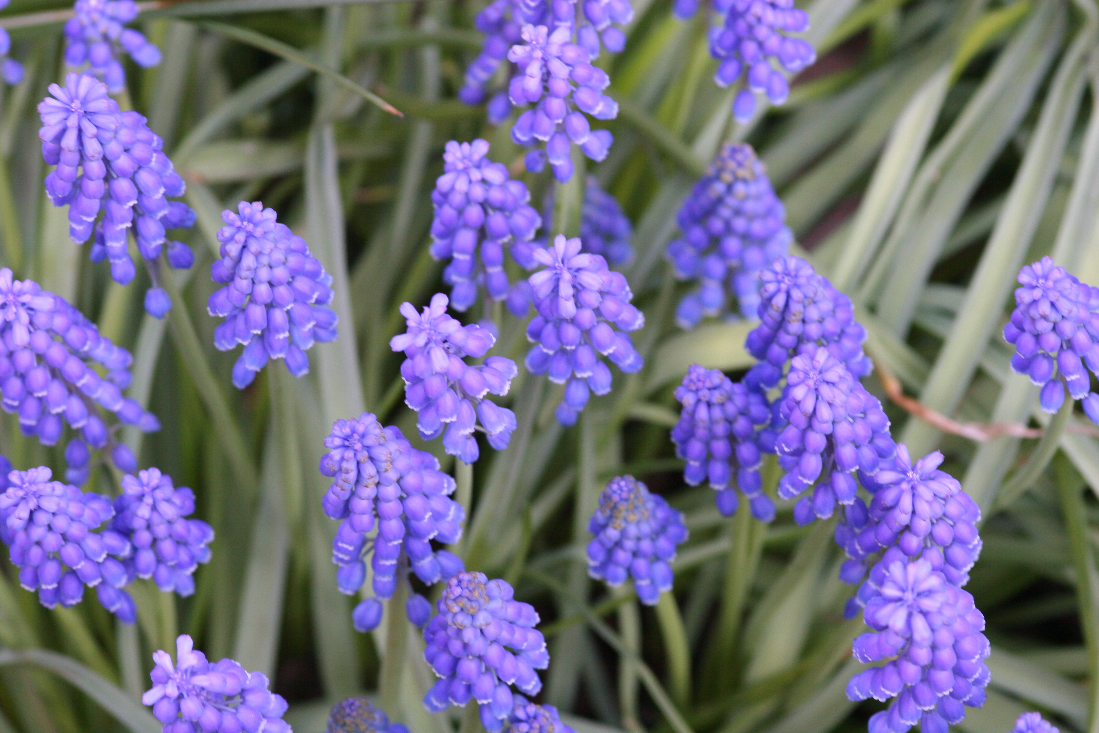 Grape Hyacinth flowers. Taken April 2005, Cambridge MA, by me, User Debivort.